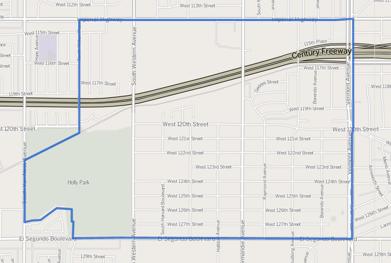 Map of the Athens neighborhood — an unincorporated community of Los Angeles County, California. In the South Los Angeles area. As outlined by the Los Angeles Times.